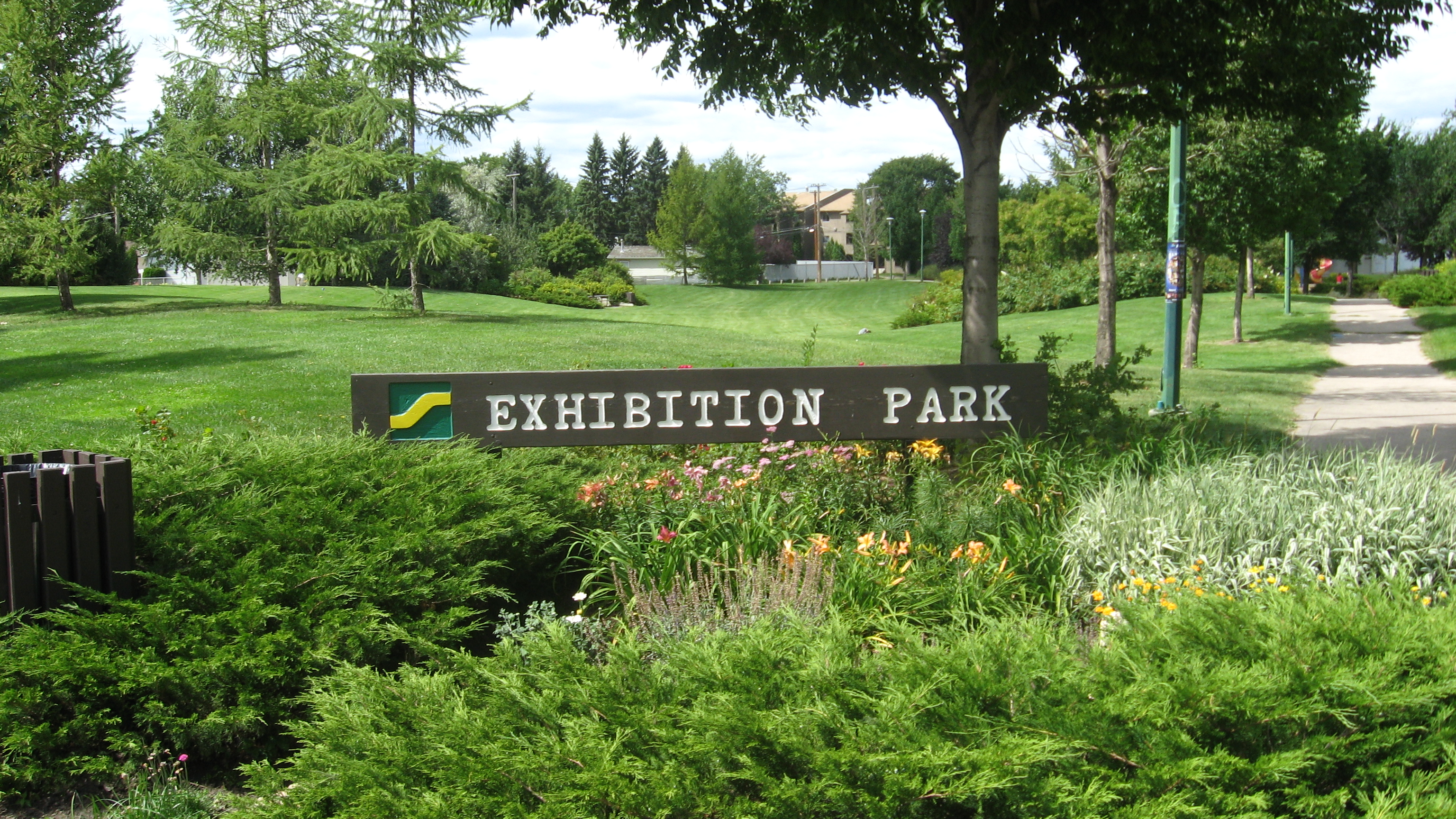 Exhibition Park, across from the Exhibition Grounds, Saskatoon